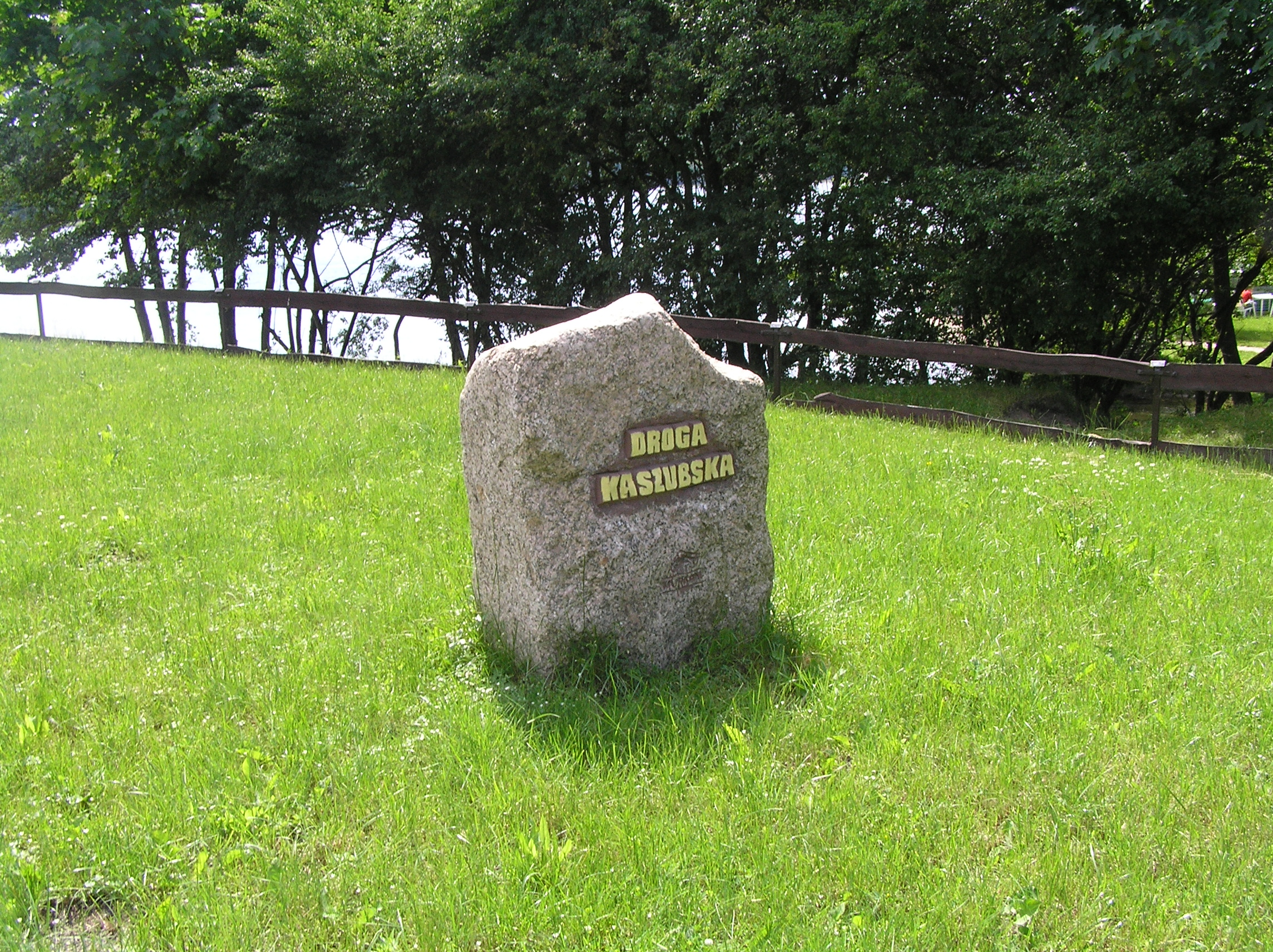 Sign of the Kashubian Road in Ostrzyce.